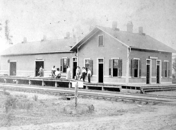 The original Pensacola and Atlantic Railroad depot at Milton, Florida, constructed 1882.